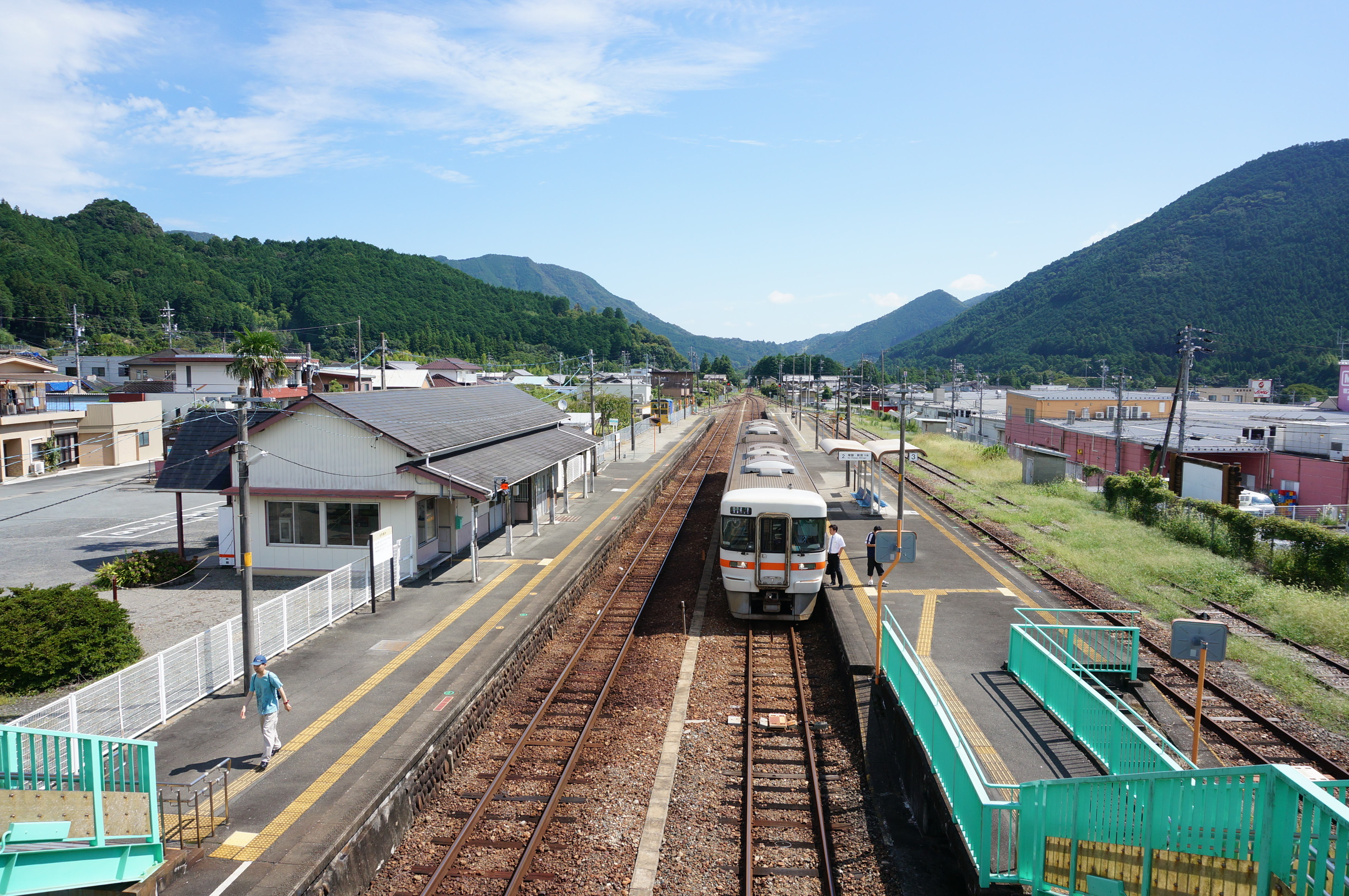 Misedani Station